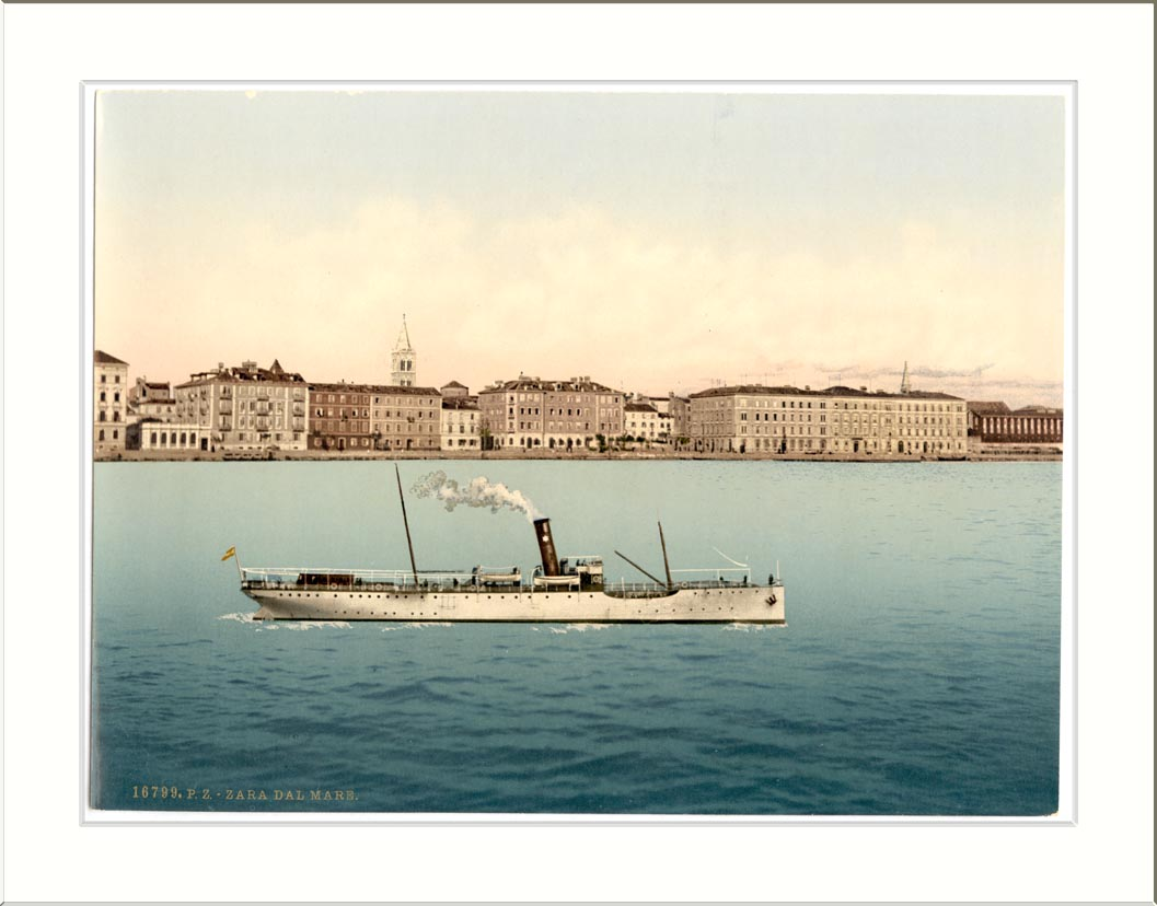 Zara from the sea Dalmatia Austro-Hungary